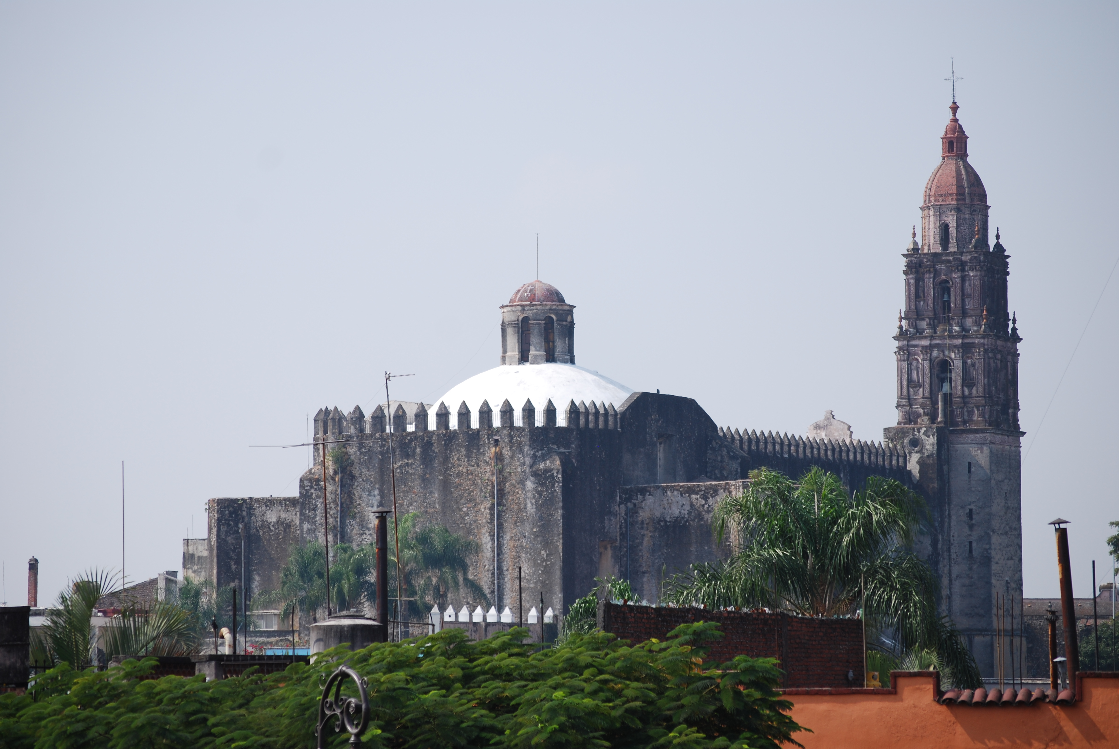 view of the back of the cathedral of Cuernavaca taken from the Palace of Cortes, Cuernavaca, Mexico